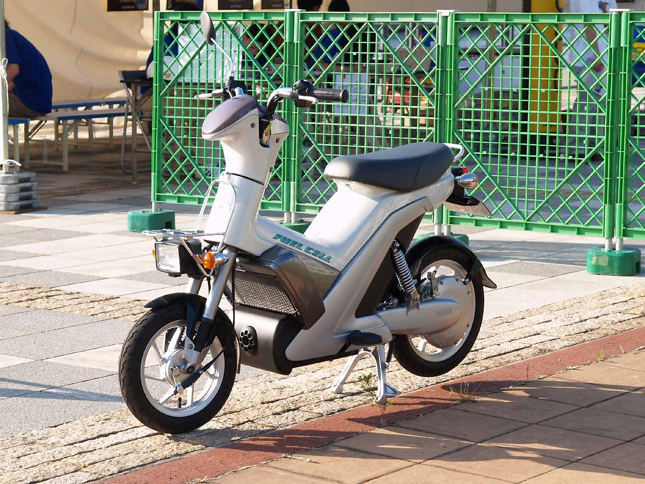 Yamaha Motor's fuel cell motorcycle "FC-me" for trial ride. Place: Shinkou, Naka-ward, Yokohama Kanagawa Japan (in event "Eco-Car World")